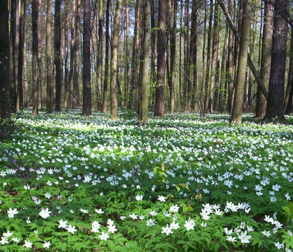 Anemone nemorosa in forest near Radziejowice.